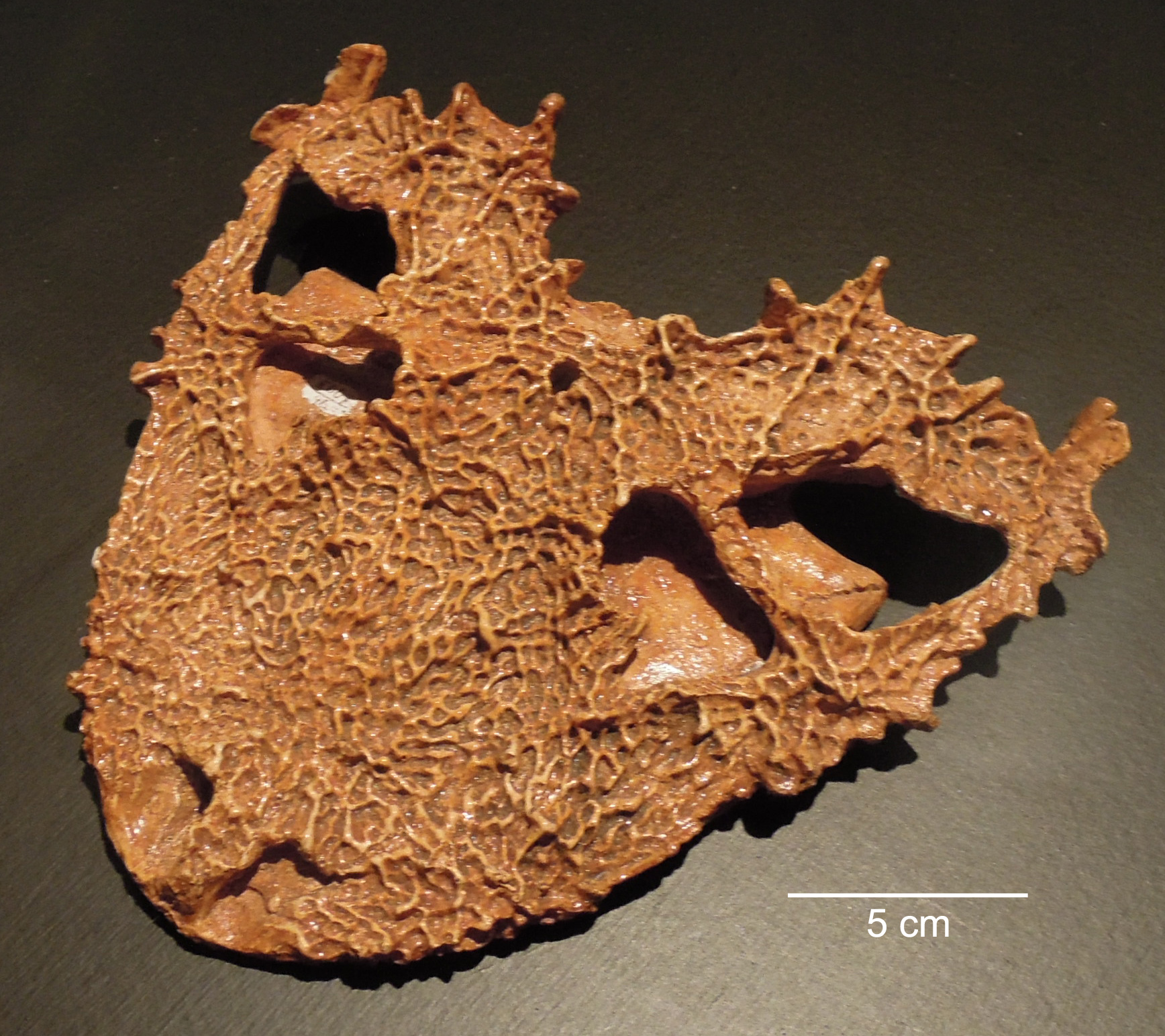 Skull of the Permian parareptile Lanthanosuchus watsoni EFREMOV 1946 (presumably a copy of the holotype skull PIN 271/1), touring exhibition “Dinosaurium”, here at exhibition grounds in Holešovice, city of Prague, Czech Republic